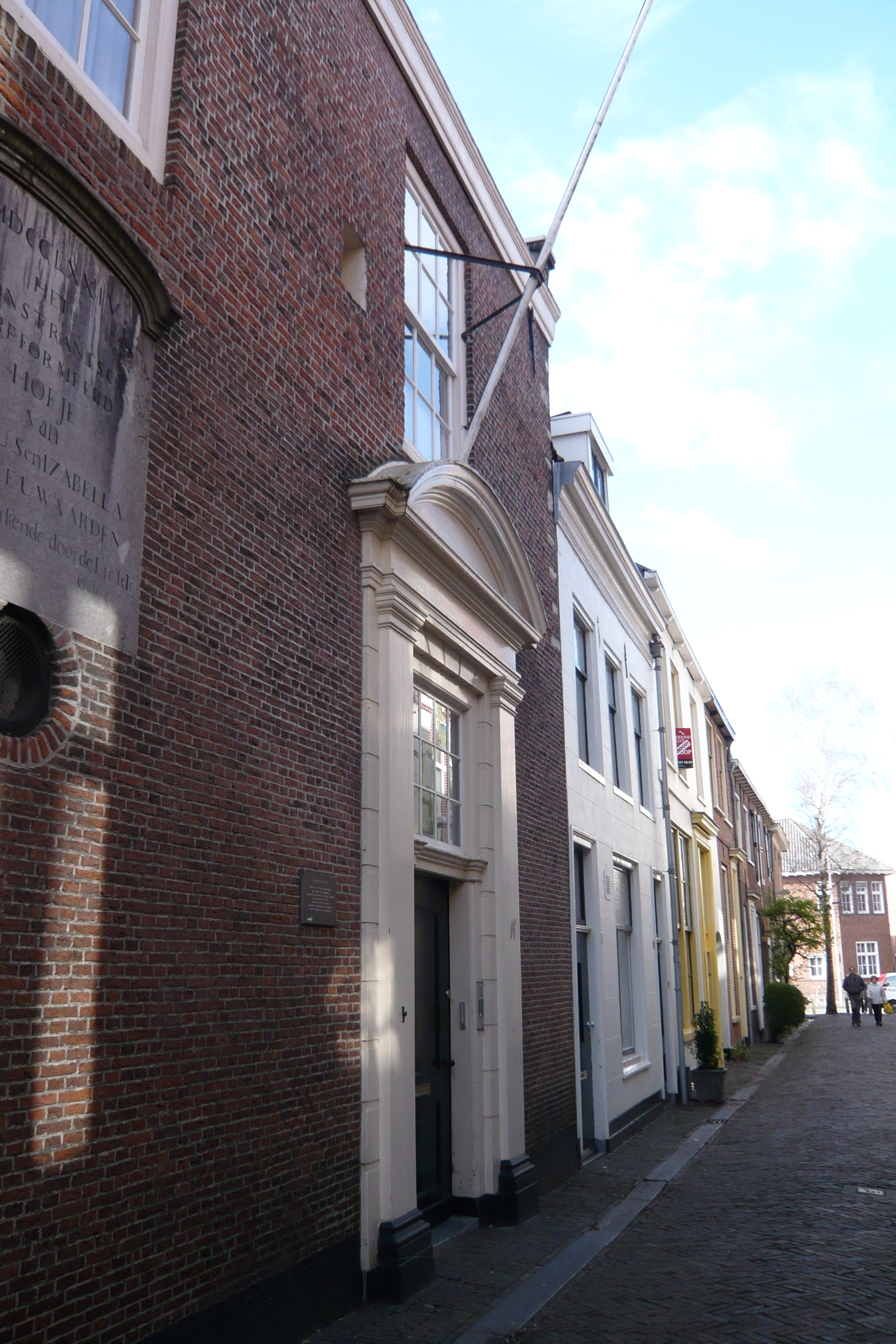 Remonstrantse Hofje. Built in 1774 with the means from the testament of Isabelle van Leeuwaerden. Built by Nicolaes Tijsterman on the site of a 15th century nunnery dedicated to St. Ursula. Some of the original foundations of the nunnery are visible.